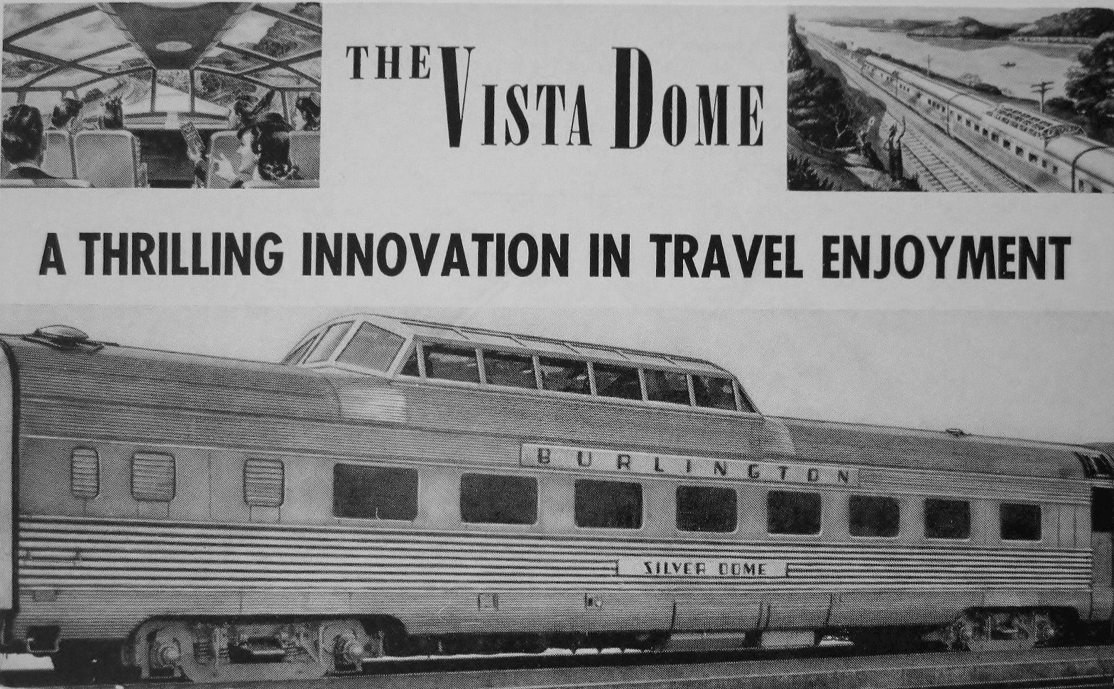 Postcard photo of the first Vista Dome observation car, Silver Dome.